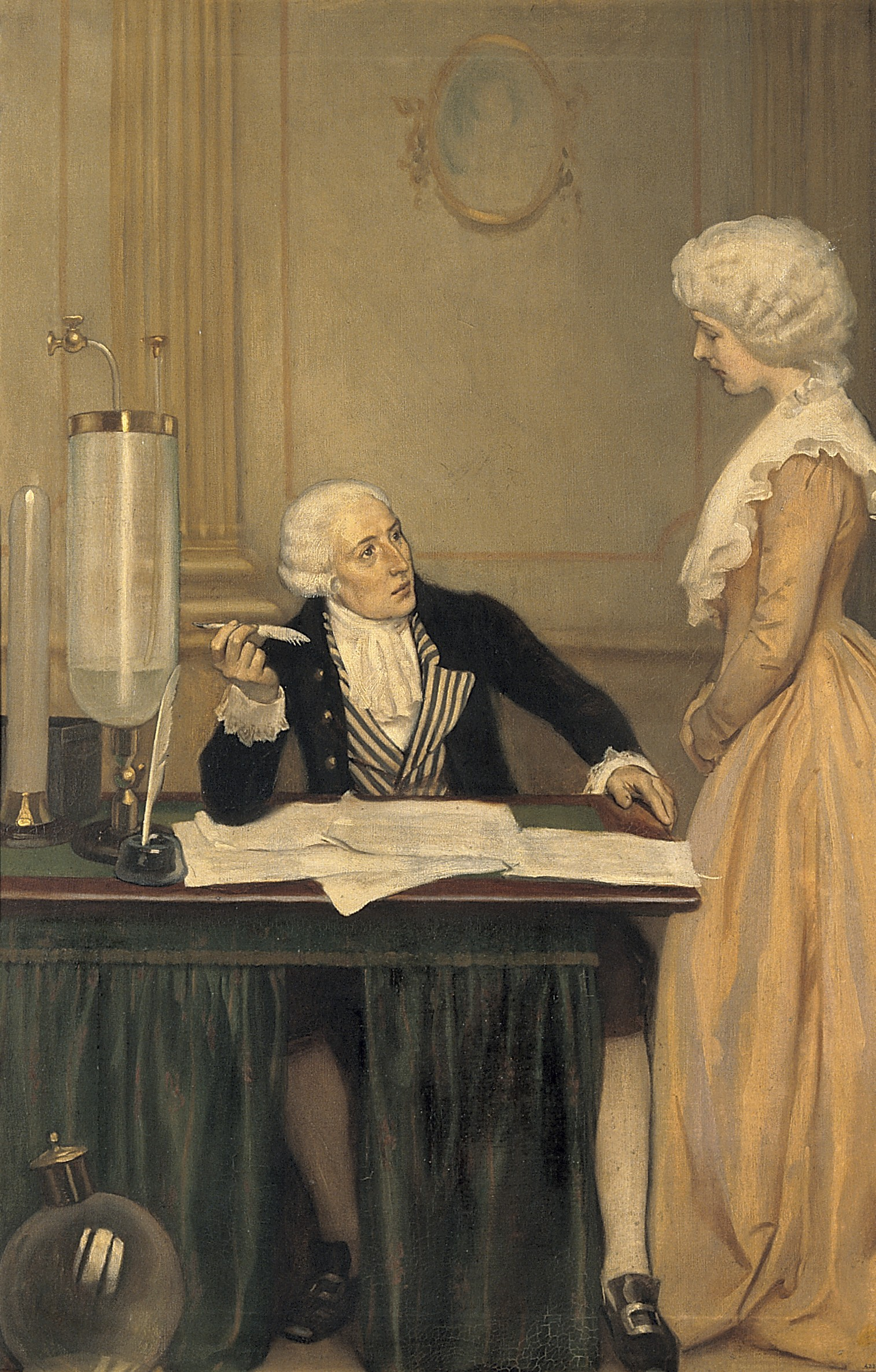 Lavoisier explaining to his wife the result of his experiments on air. Oil painting by Ernest Board. Iconographic Collections Keywords: Ernest Board; Respiration; wife; ernest board; lavoisier; EXPERIMENT; ic